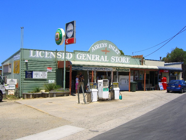 Aireys Inlet, Victoria, Australia